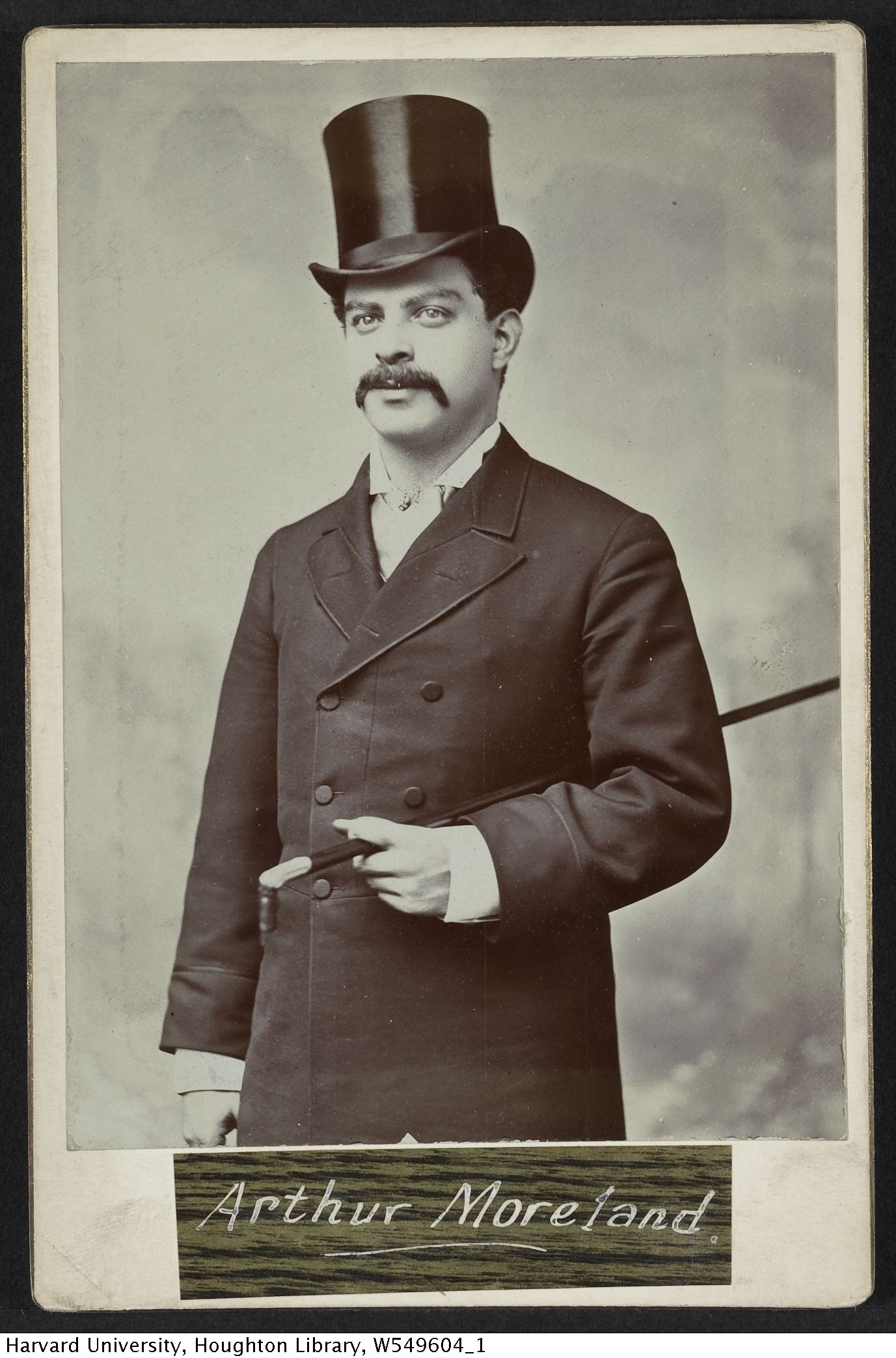 Cabinet card image of American minstrel performer Arthur Moreland (1847-1915). TCS 1.729, Harvard Theatre Collection, Harvard University